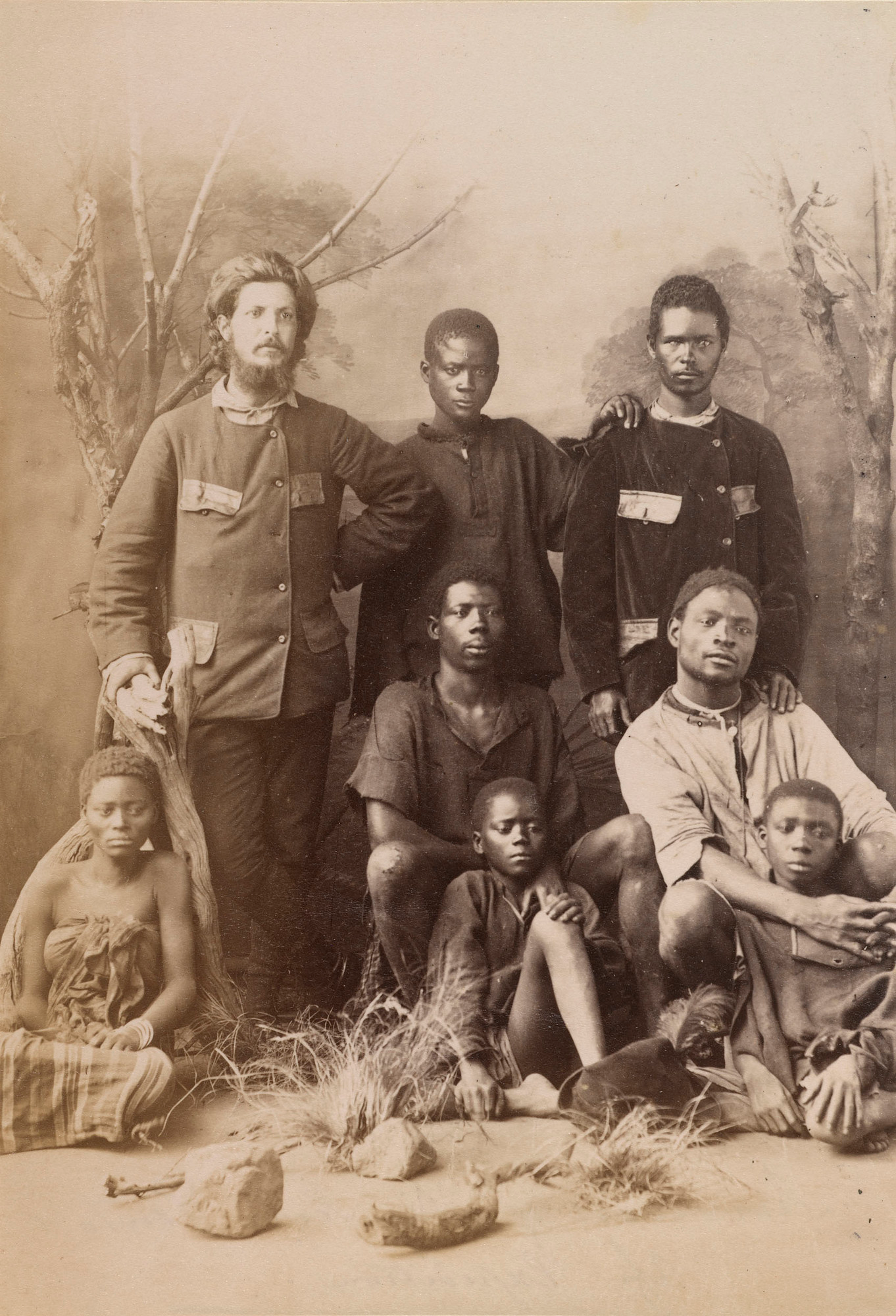 Photograph of Portuguese explorer Alexandre de Serpa Pinto (1846-1900) with the survivors of his expedition from São Paulo da Assunção de Loanda to Natal. Serpa Pinto is standing to the left with his right hand resting on a tree trunk.